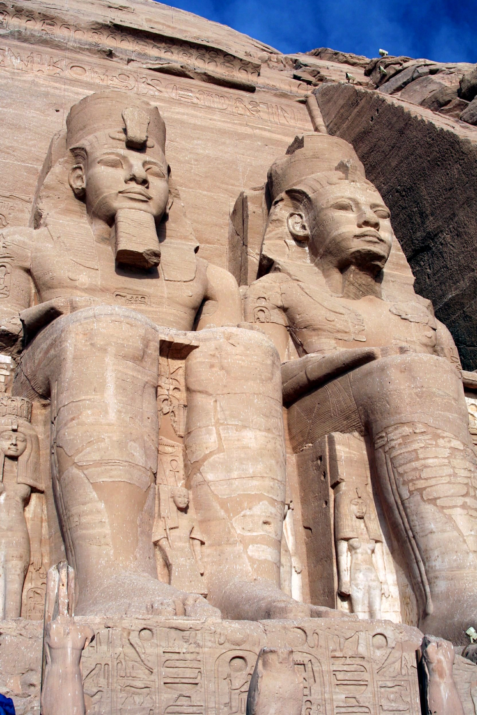 Abu Simbel in the heart of Nubia, the Temple of Rameses II